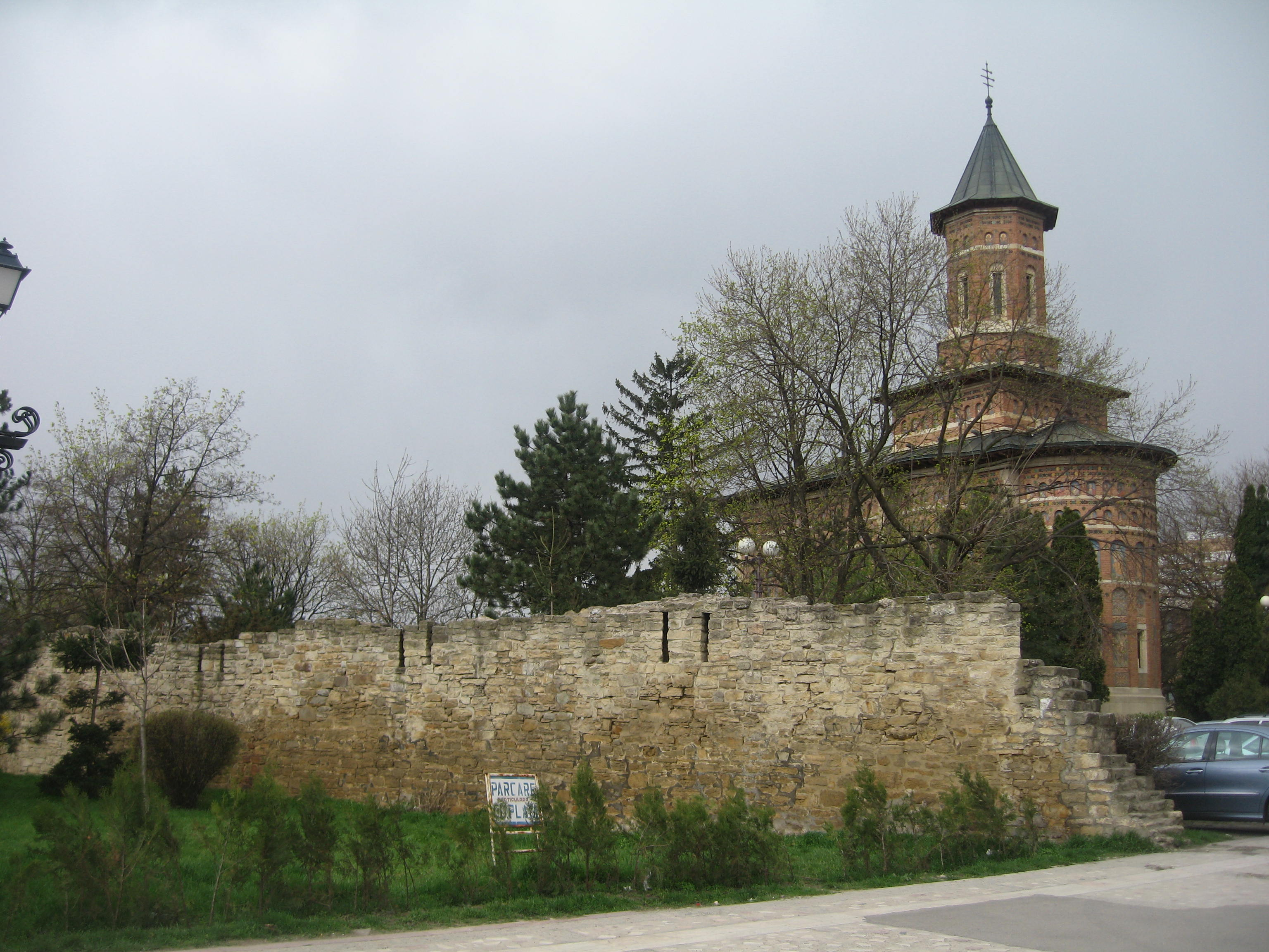 Biserica Sf. Nicolae Domnesc din Iași, România